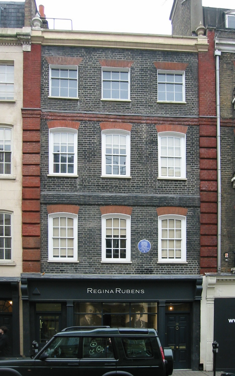 Handel House, 25 Brook Street, London W1 In this house, George Frideric Handel lived from 1723 until his death. It is here that he composed his oratorio Messiah. After a major renovation, the house is home to a museum devoted to Handel's life and work. 1968 to 1969, Jimi Hendrix lived in the neighbouring house at 23 Brook Street. When learning about Handel having lived next door, Hendrix allegedly bought some Handel records, including Messiah and Water Music.